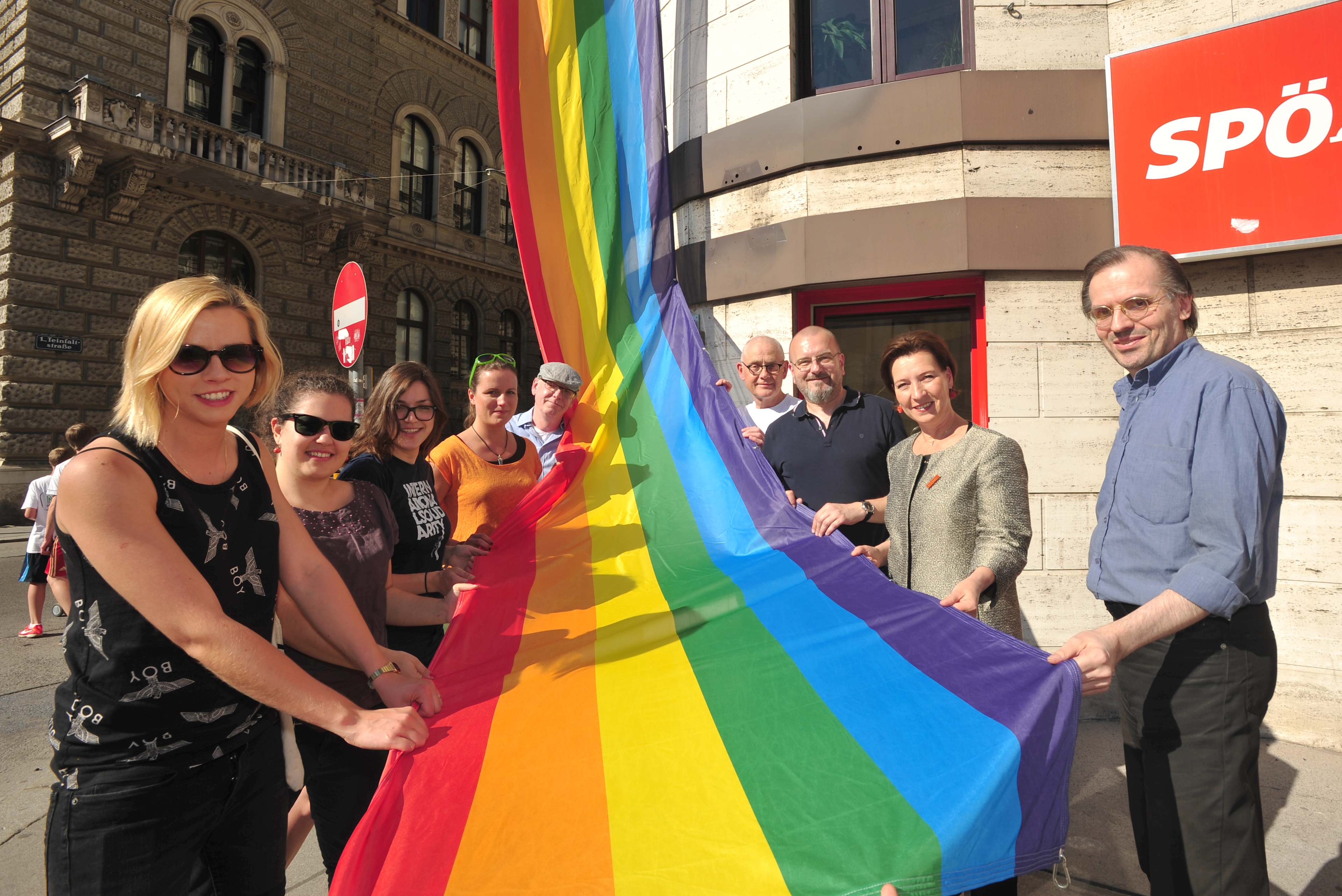 Foto: Thomas Lehmann